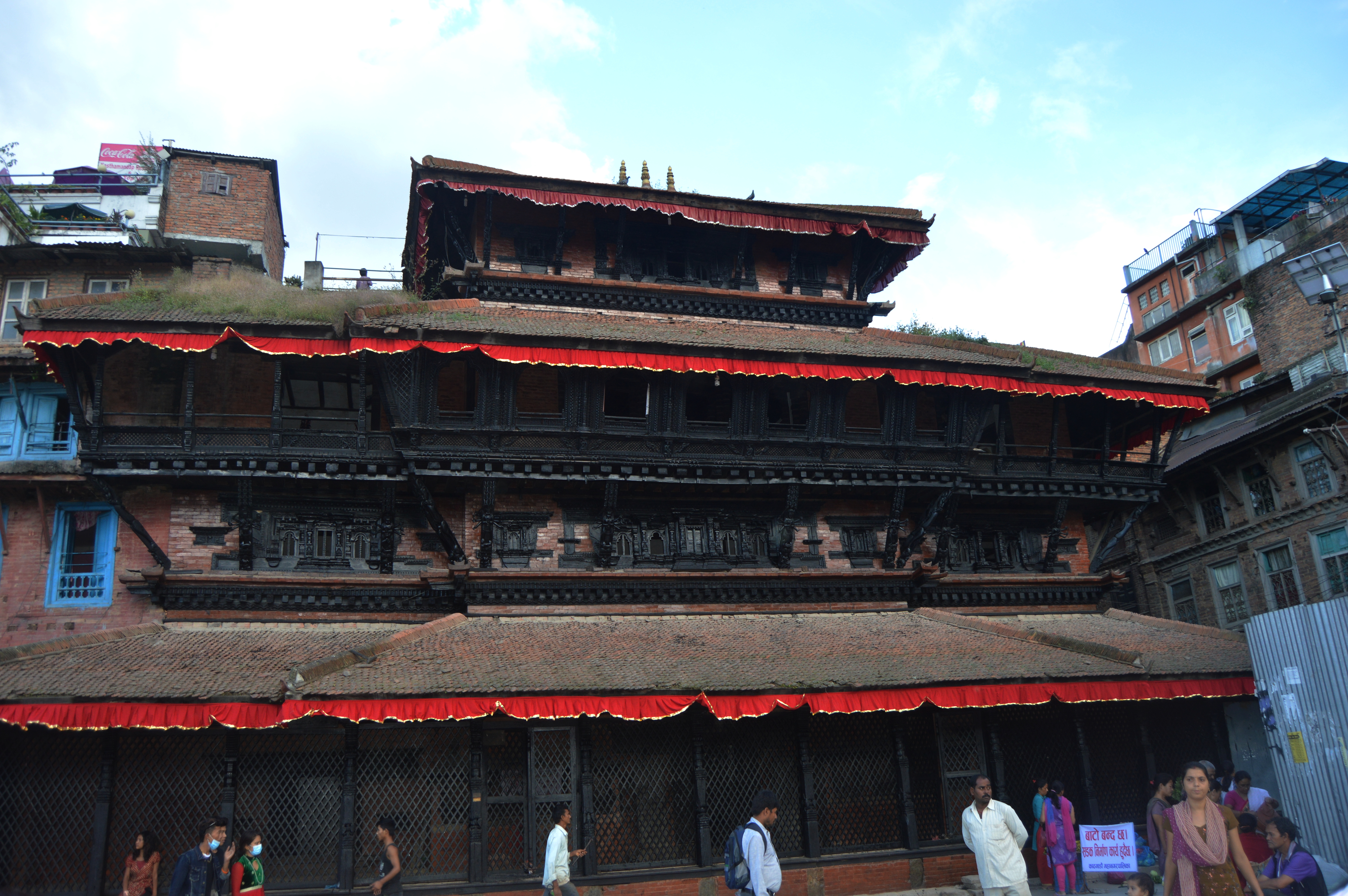 Kabindrapur is built by Pratap Malla in 1673 to start a new masked dance of Narasimha, an incarnation of vishnu.